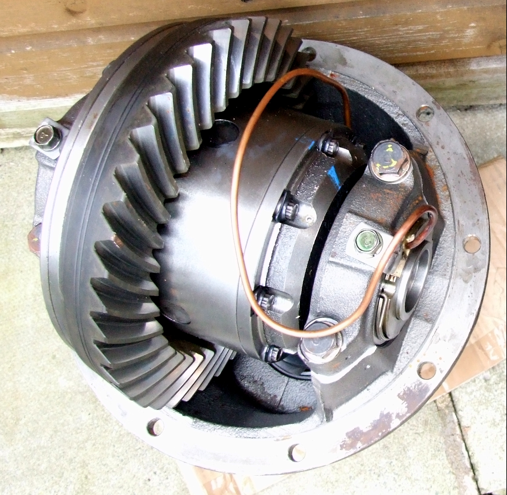 ARB, Air Locking Rear Differential.